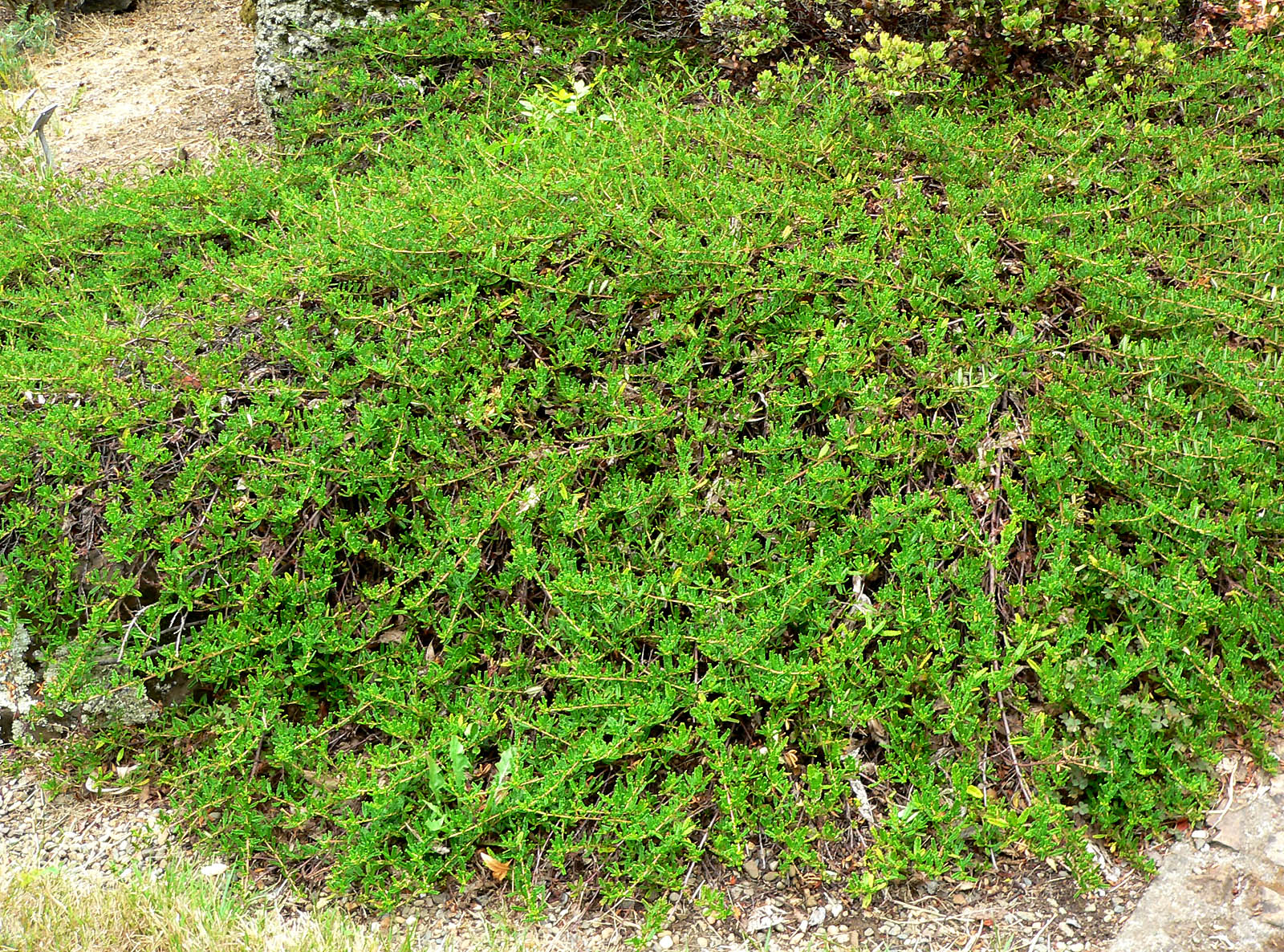 Photo of Ceanothus hearstiorum at the Regional Parks Botanic Garden